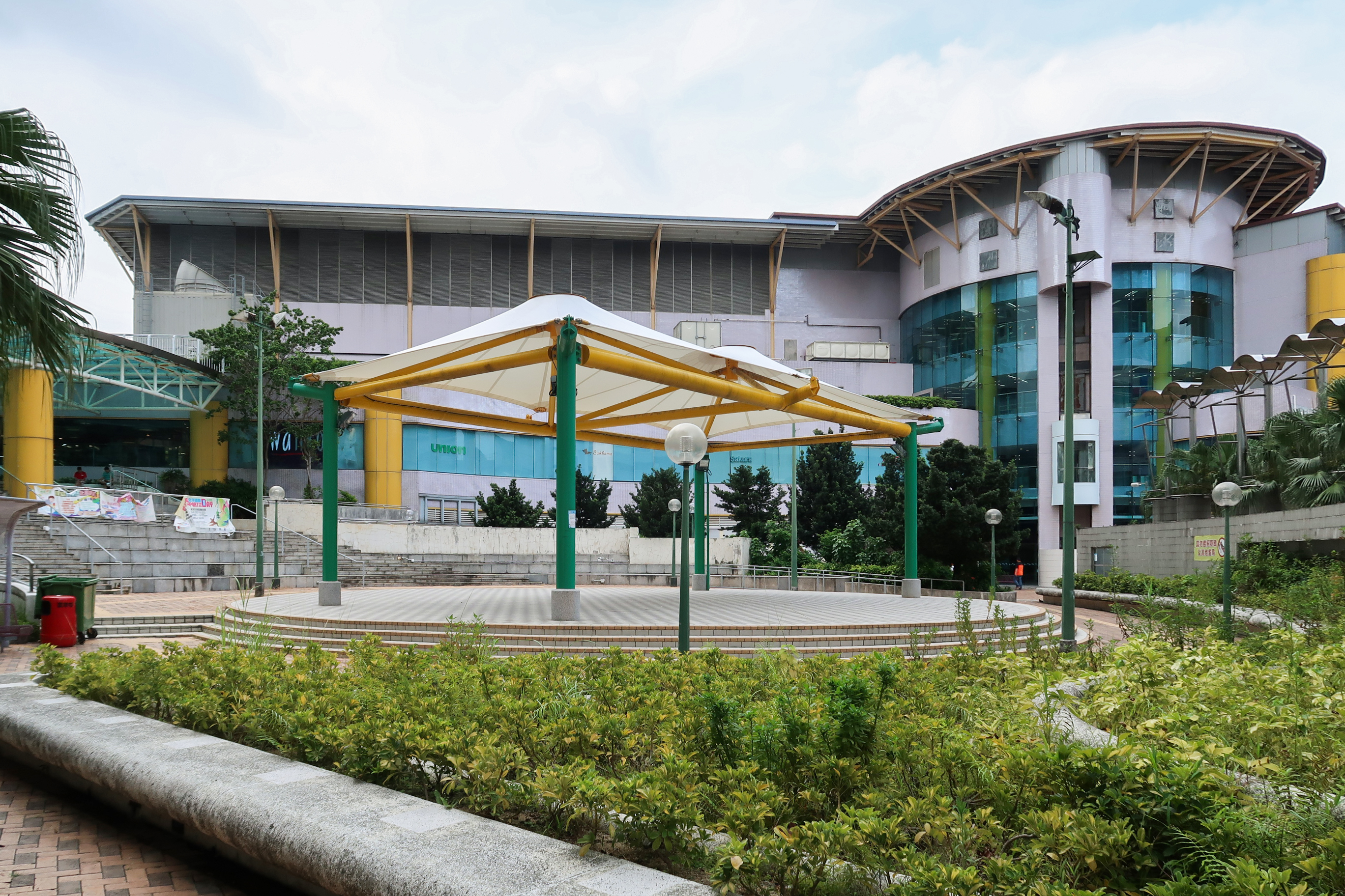 Fu Tung Estate Amphitheatre